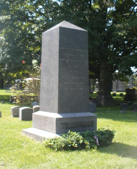 Grave monument for General Lloyd Tilghman, Confederate States Army, Woodlawn Cemetery, Bronx, New York, 20 August 2011